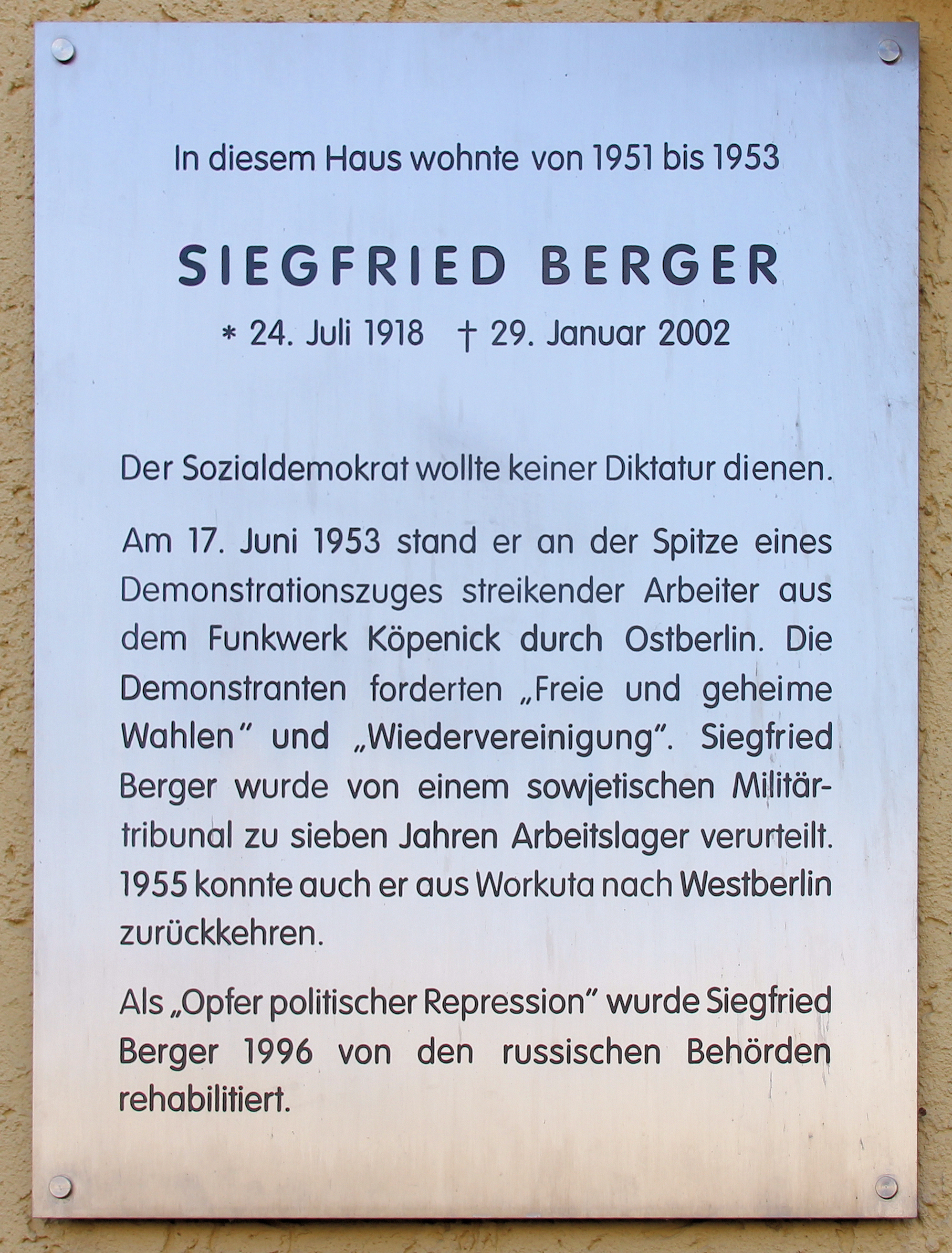 Memorial plaque, Siegfried Berger, Römerweg 40, Berlin-Karlshorst, Germany